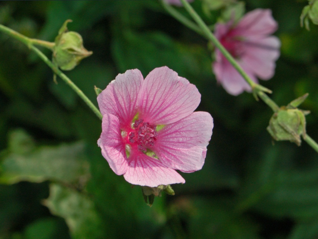 Althaea cannabina - Pian dei Grilli, Genova, Italy